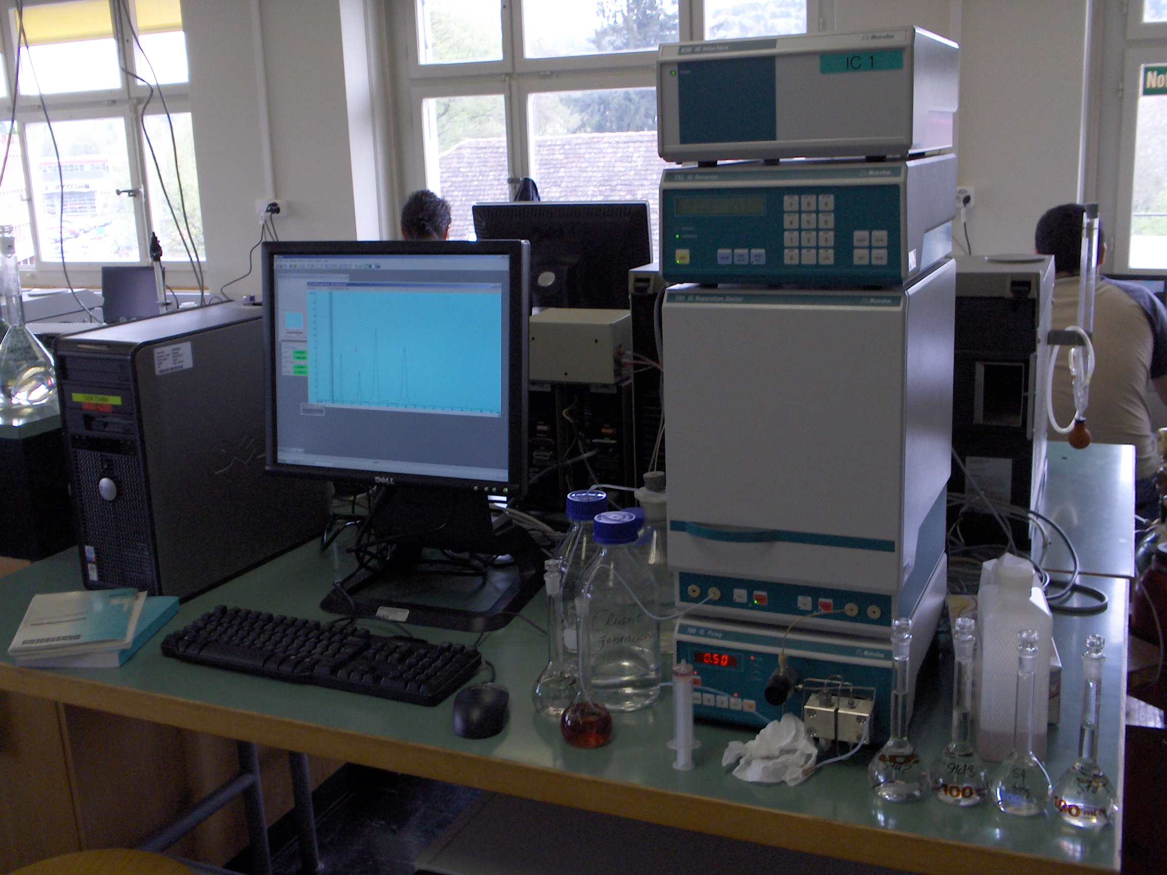 An Ion Chromatography Workstation from Metrohm